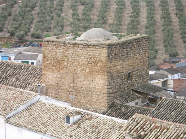 Torre del Homenaje de Begíjar